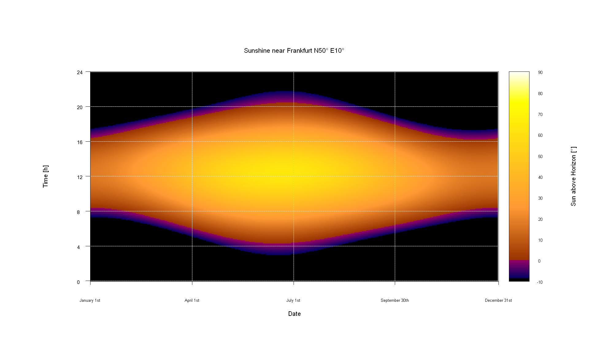 Carpet Plot showing Elevation of sun above horizon near Frankfurt/ Germany